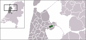 Location of Dutch former municipality Drechterland in 2005 (municipality Drechterland still exists after 2005, but with a larger area due to a merger). Made by me (Mtcv), PD.